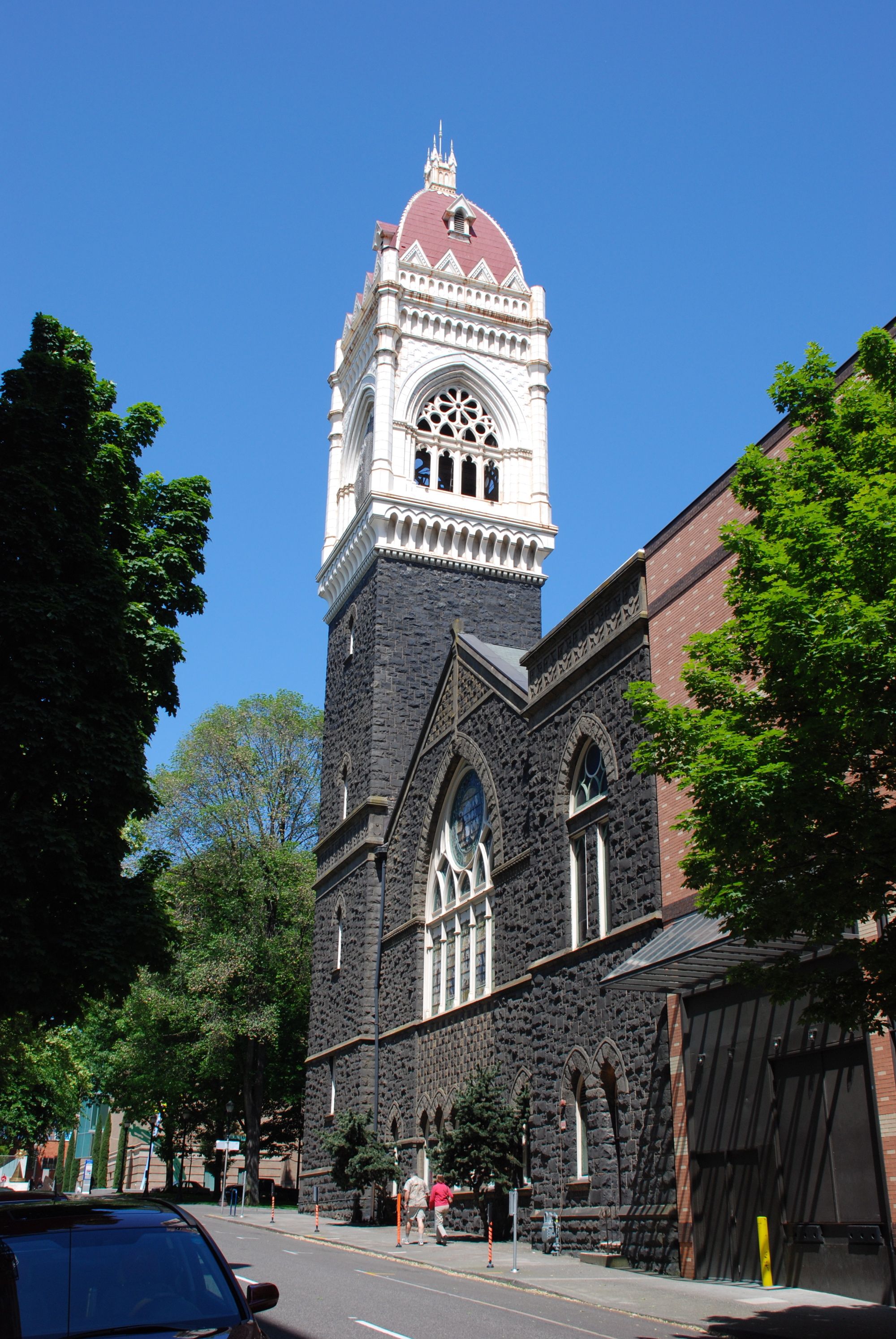 The First Congregational Church, located at 1126 SW Park Avenue in Portland, Oregon, United States, is listed on the US National Register of Historic Places (NRHP). This is the south facade, viewed from the southeast, on Madison Street.